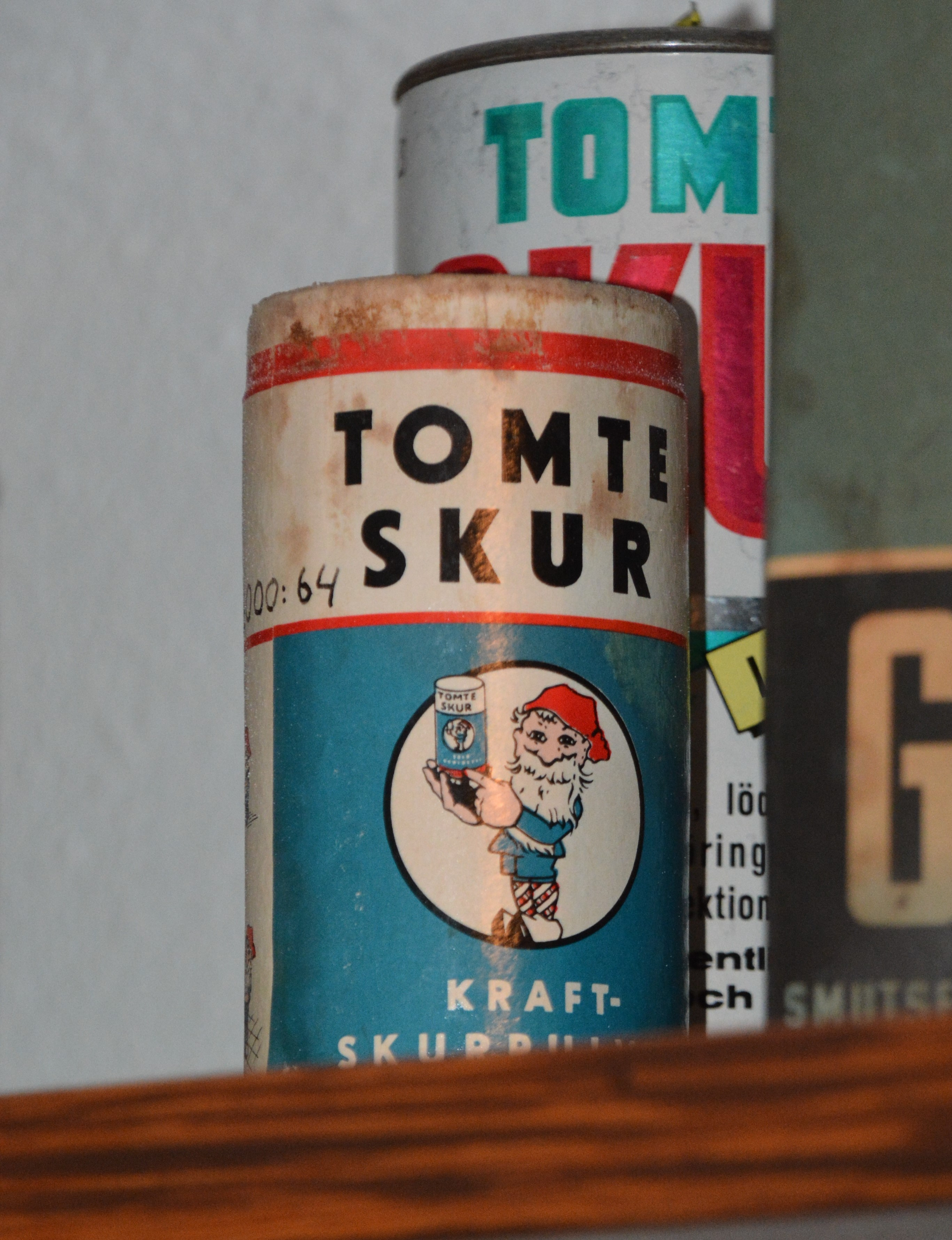 Tomteskur floor cleaning powder, Sweden